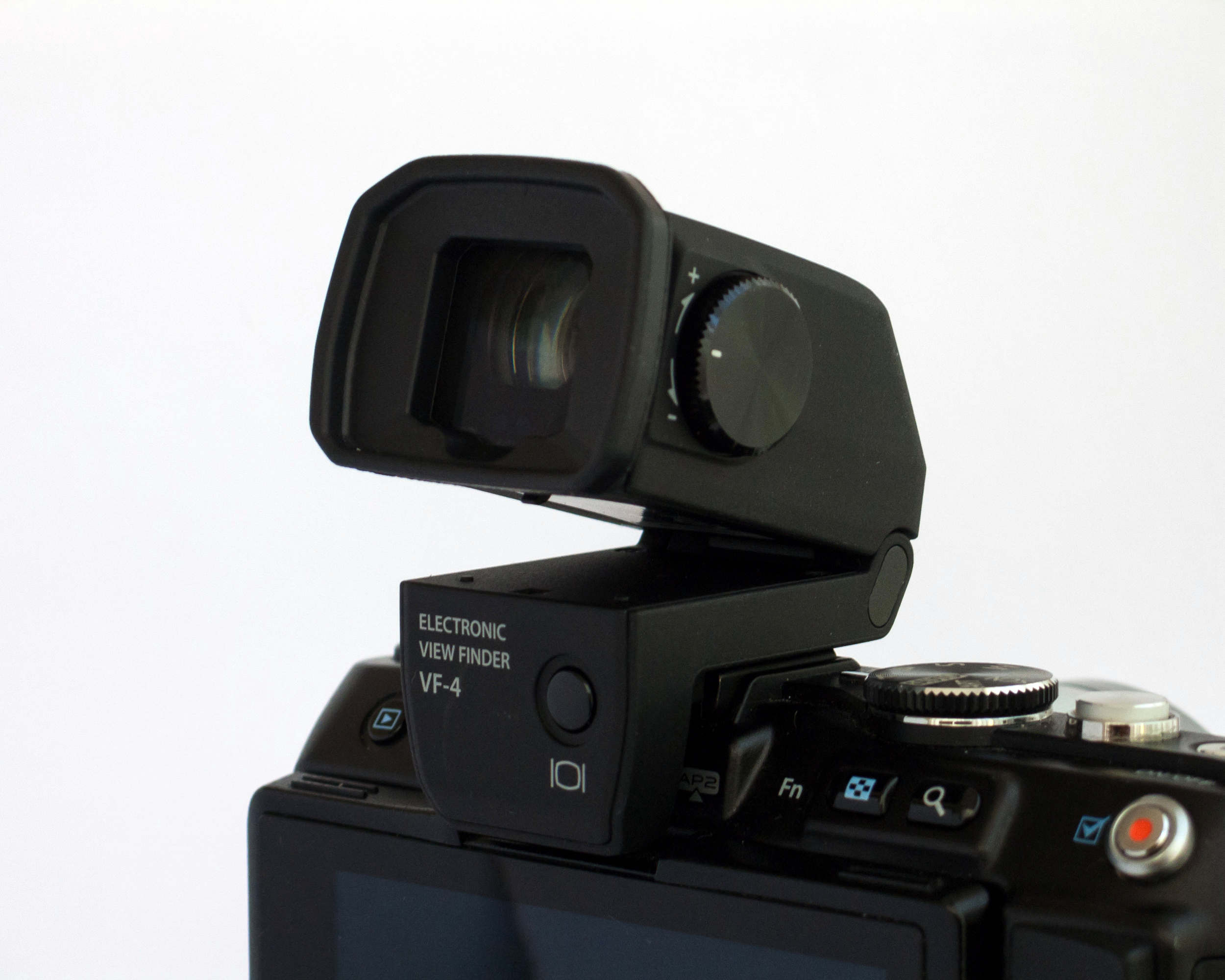 Olympus E-PL5 with electronic viewfinder VF-4